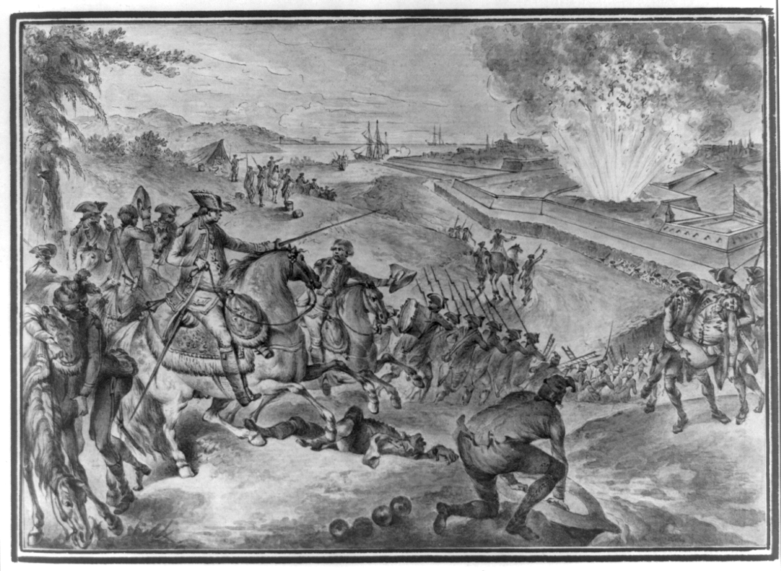 Wash drawing (reverse of printed versions) shows an explosion at a British magazine during the siege of Pensacola, killing or wounding many British soldiers. In the foreground, Spanish troops, possibly under the command of Bernardo de Gálvez, take advantage of the opportunity to attack and force the surrender of the British garrison.